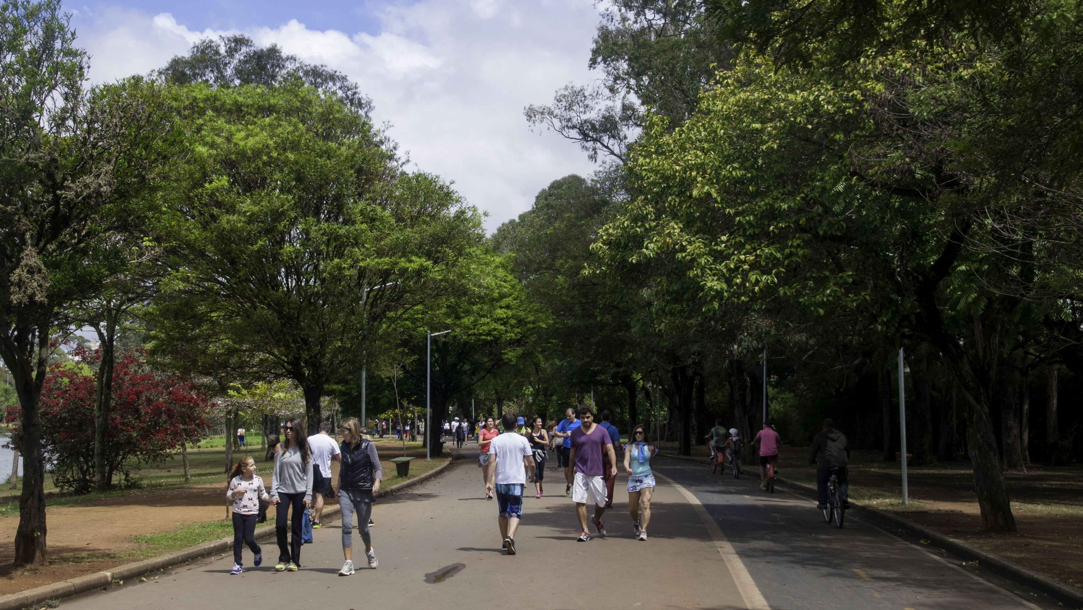 Ibirapuera park